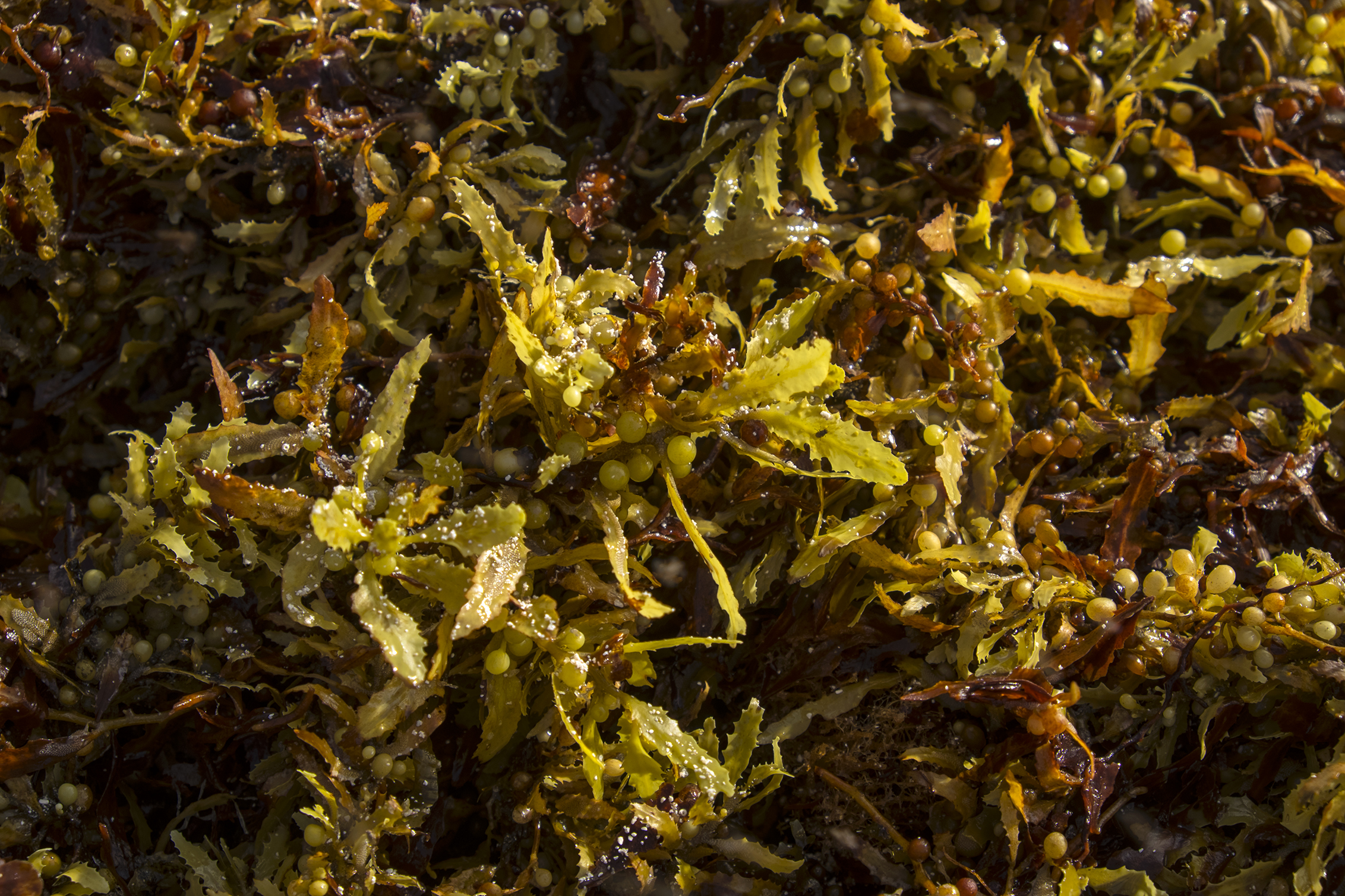 Sargassum is a genus of brown (class Phaeophyceae) macroalgae (seaweed) in the order Fucales. Numerous species are distributed throughout the temperate and tropical oceans of the world, where they generally inhabit shallow water and coral reefs, and the genus is widely known for its planktonic (free-floating) species. While most species within the class Phaeophyceae are predominantly cold water organisms that benefit from nutrients upwelling, genus Sargassum appears to be an exception to this general rule. Any number of the normally benthic species may take on a planktonic often pelagic existence after being removed from reefs during rough weather; however, two species (S. natans and S. fluitans) have become holopelagic—reproducing vegetatively and never attaching to the seafloor during their lifecycle. The Atlantic Ocean's Sargasso Sea was named after the algae, as it hosts a large amount of sargassum.